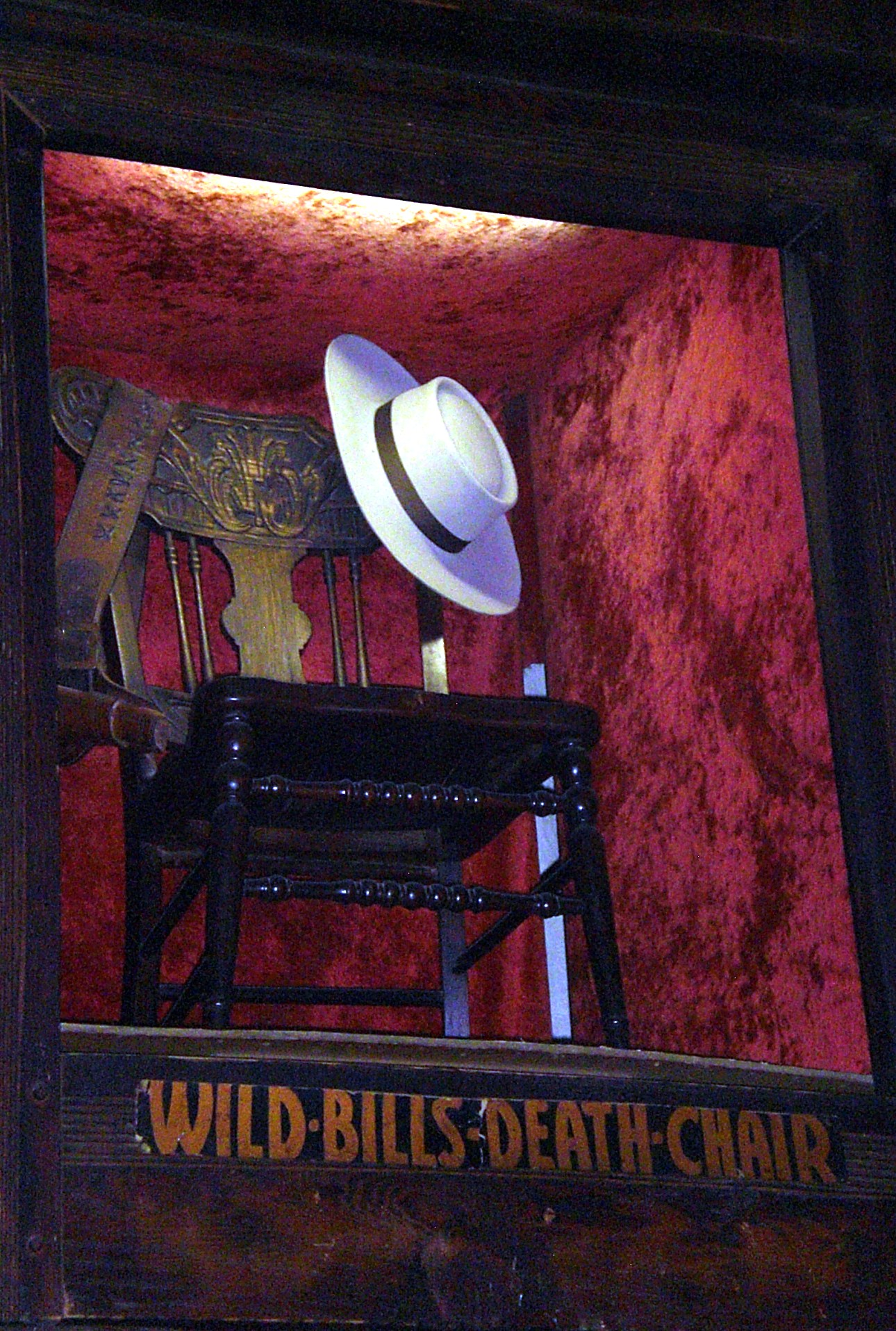 Chair where Wild Bill Hickok died in Nuttal & Mann's Saloon in Deadwood, South Dakota, United States.